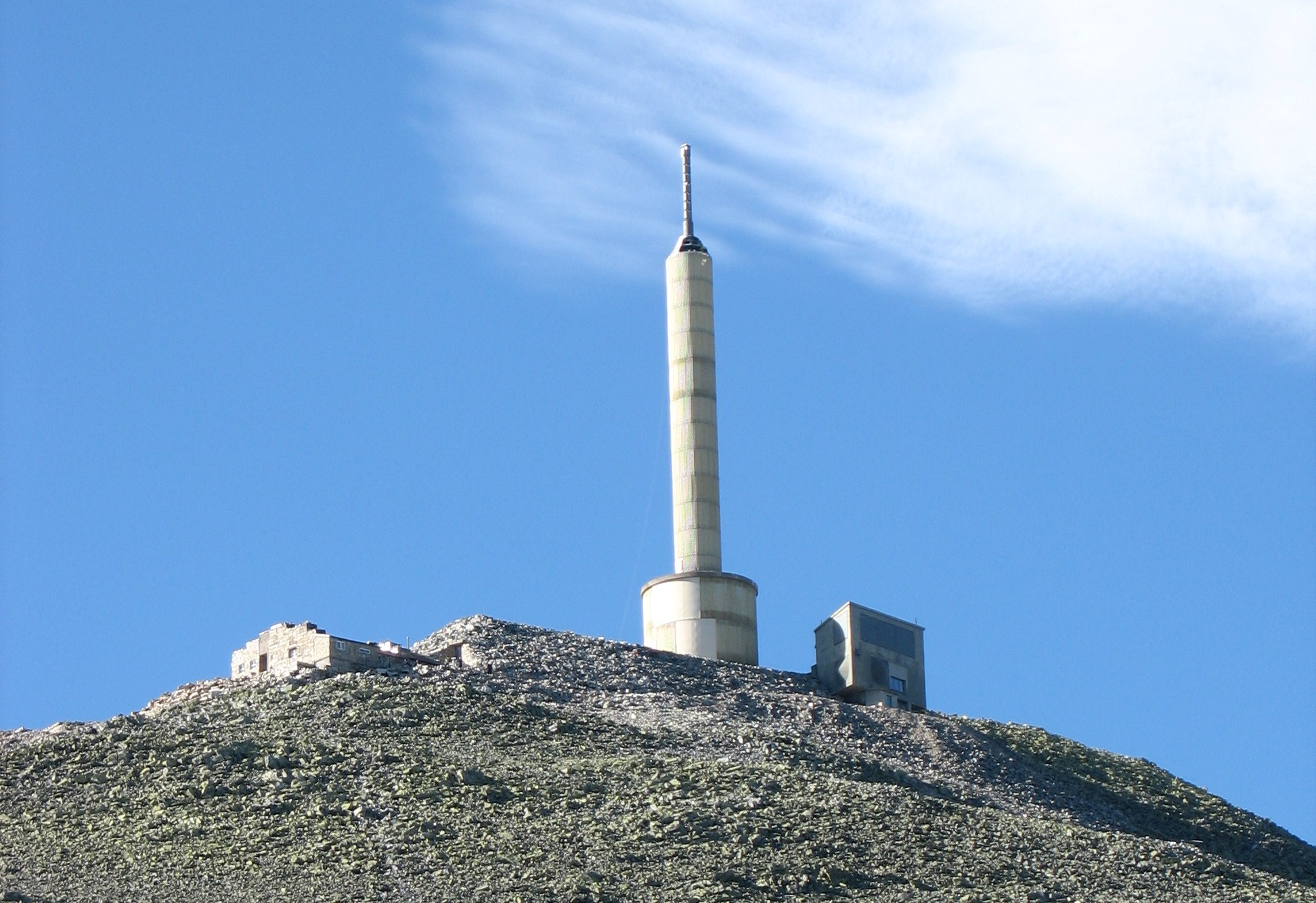 View to the summit of Gaustatoppen with mountain hut and transmitter tower